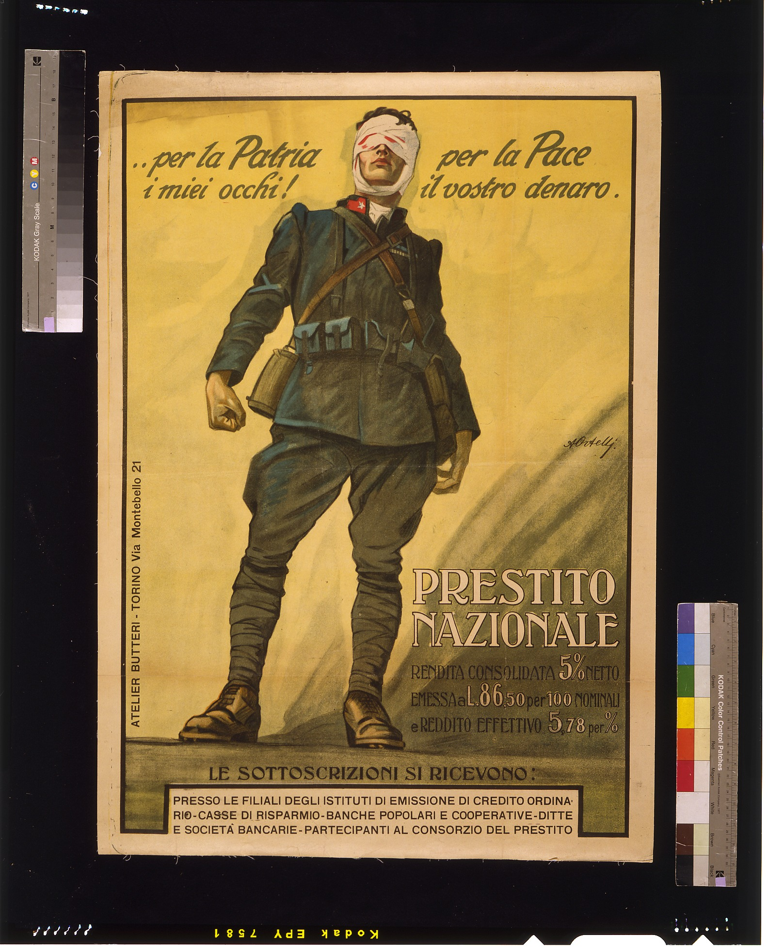 Title: Per la Patria i mieli occhi! Per la Pace il vosto denaro. Prestito Nazionale Abstract: Poster shows a wounded Italian soldier with blood stained bandages wrapped around his eyes. Text: For the country, my eyes, for peace, your money. National Consolidated Loan ... Physical description: 1 print (poster) : lithograph, color ; 99 x 69 cm. Notes: Title from item.; A. Ortelli.